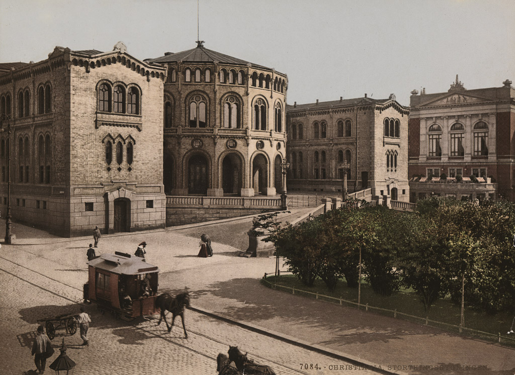 Tittel / Title: 7084. Christiania. Stortingsbygningen Dato / Date: ca 1890-1900 Fotograf / Photographer: ukjent / unknown Sted / Place: Oslo, Stortinget Eier / Owner Institution: Nasjonalbiblioteket / National Library of Norway Lenke / Link: Bildesignatur / Image Number: bldsa_FA0671